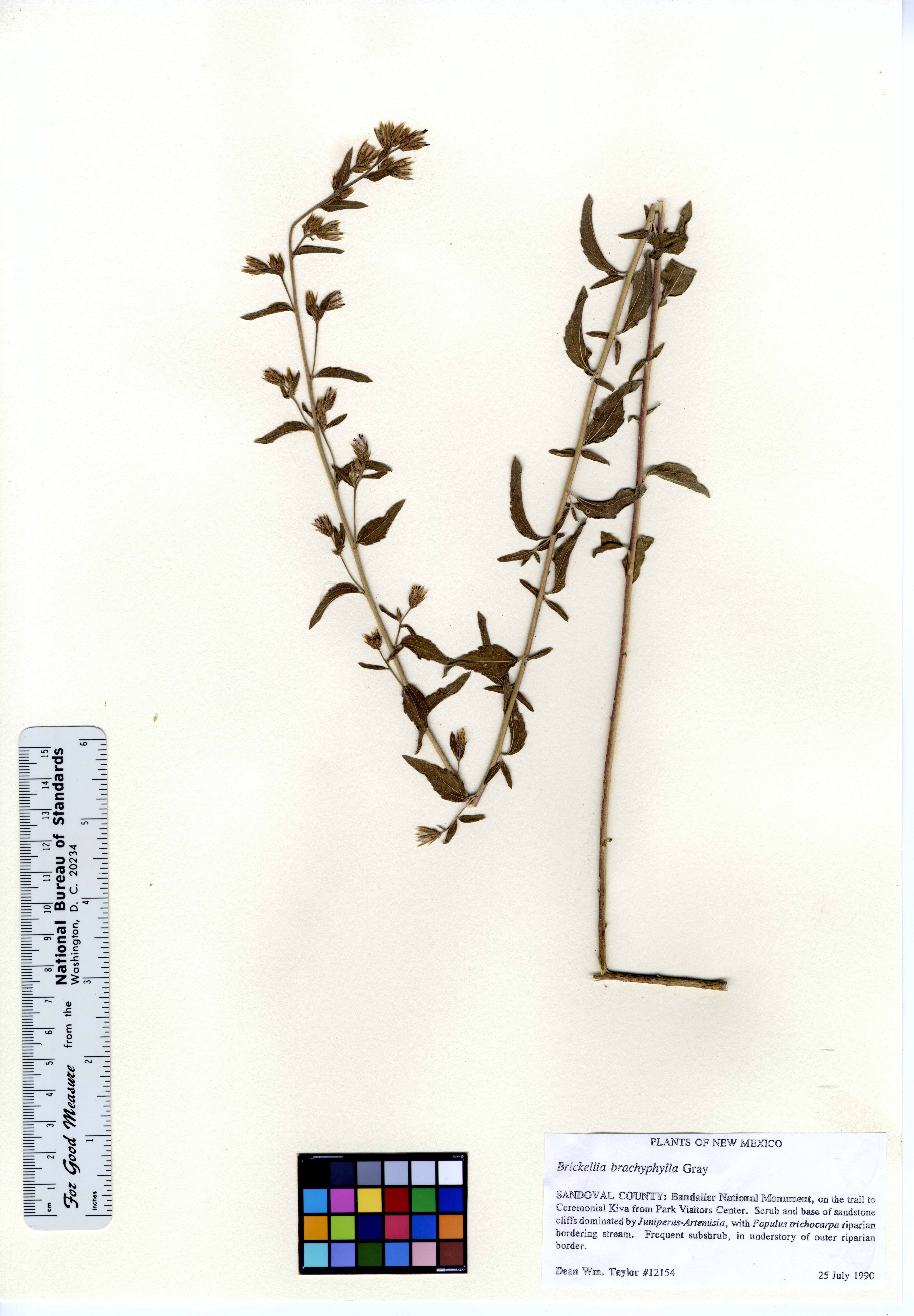 duplicate of UC1755096